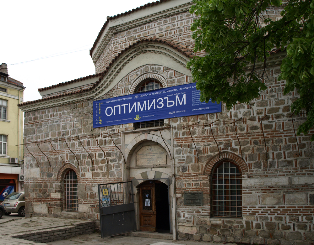 Ancient Bath centre of contemporary art, Plovdiv